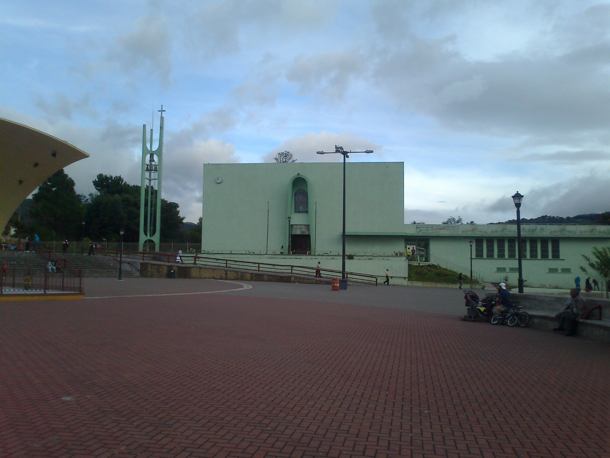 Catholic Church of Tres Ríos